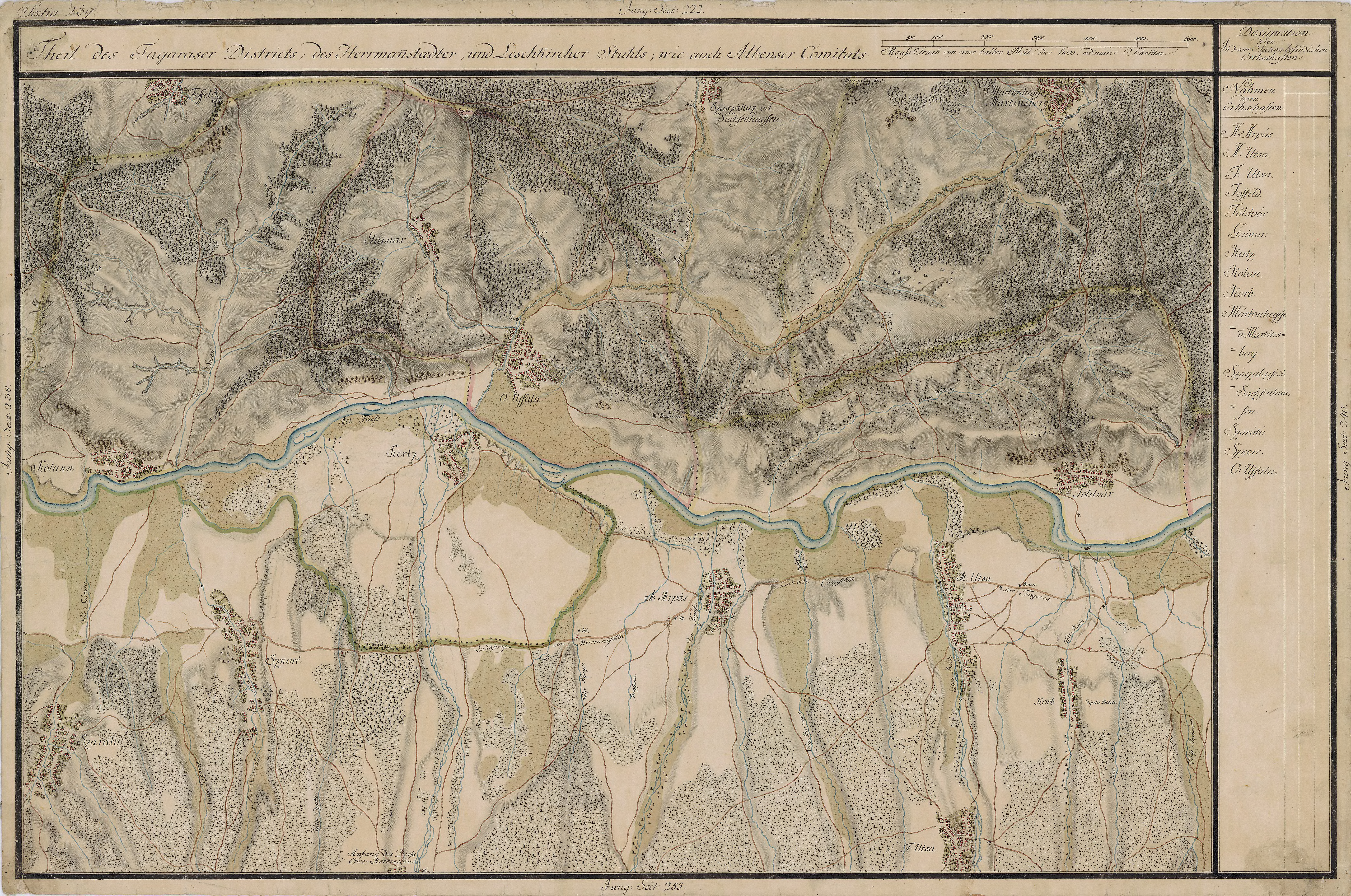 Grand Duchy of Transylvania, 1769-1773. Josephinische Landaufnahme pg.239